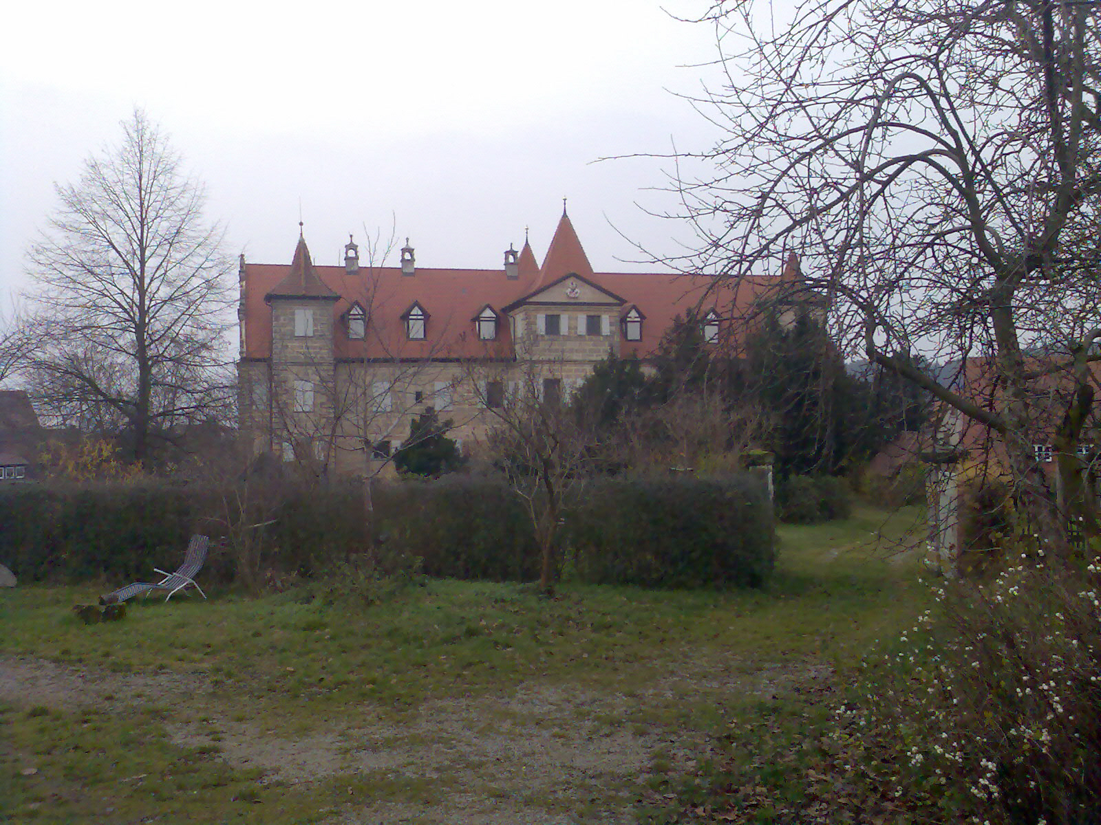 Picture of the Welser Castle I in Neunhof near Lauf at the Pegnitz, taken from South.